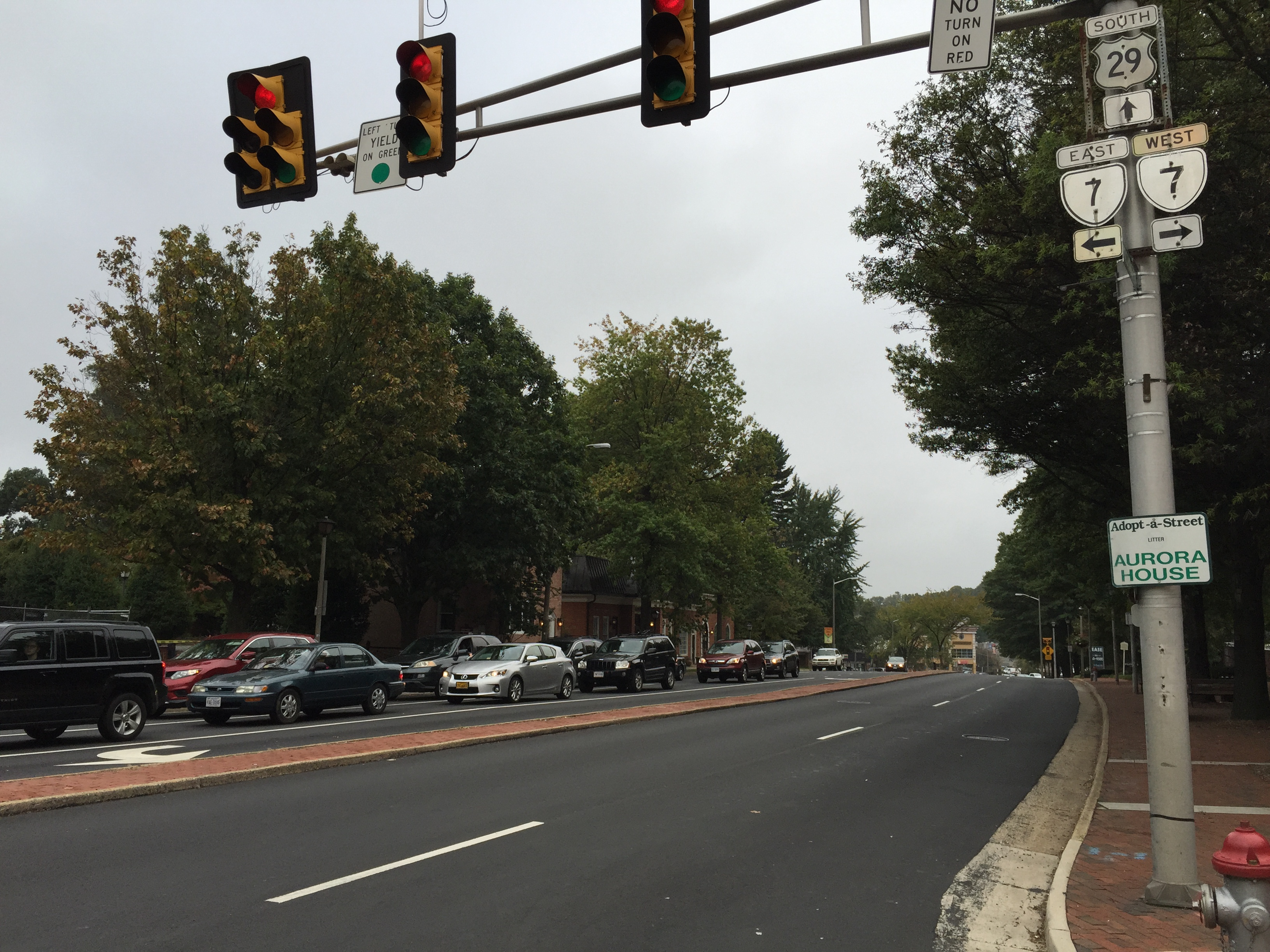 View south along U.S. Route 29 and west along Virginia State Route 237 (Washington Street) at Virginia State Route 7 (Broad Street) in Falls Church, Virginia